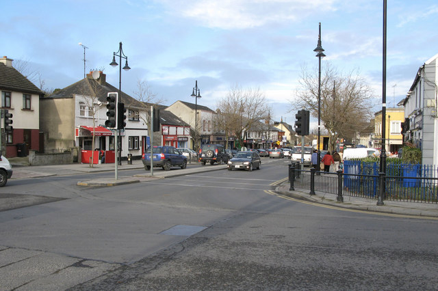 Main Street in Swords, County Dublin, Ireland